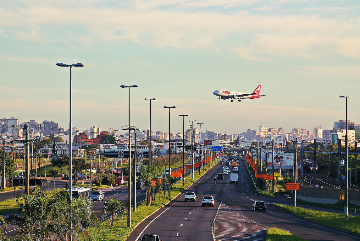 A319 in final approach at SBPA.